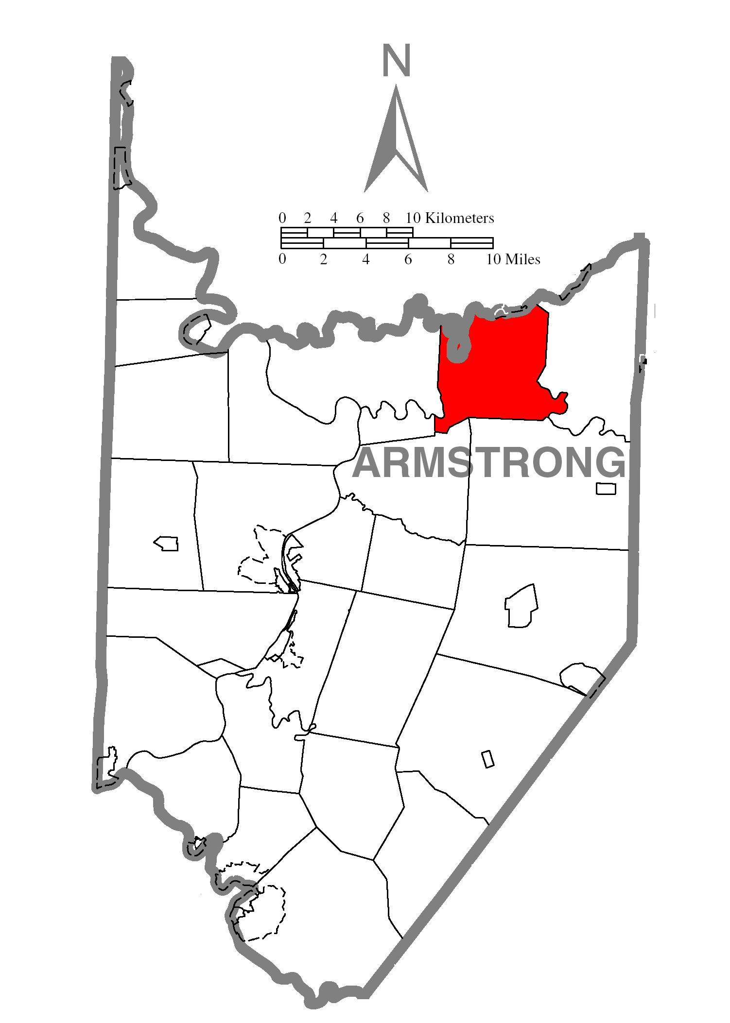 A map of Armstrong County showing Mahoning Township, Pennsylvania (alternate) highlighted on the map.